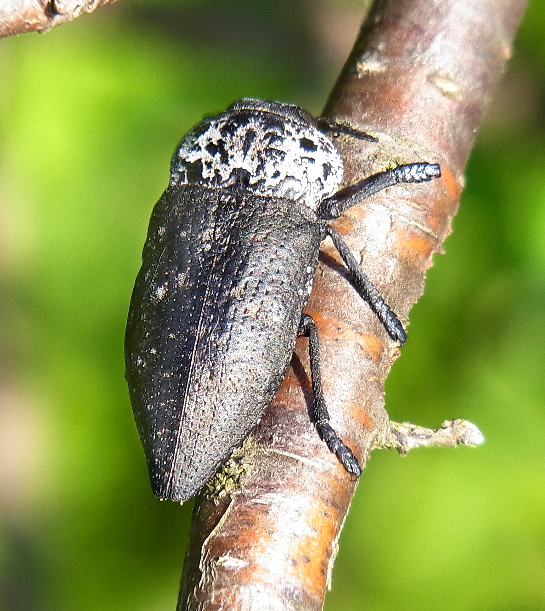 Capnodis tenebrionis from France on peach at 2011-04-27